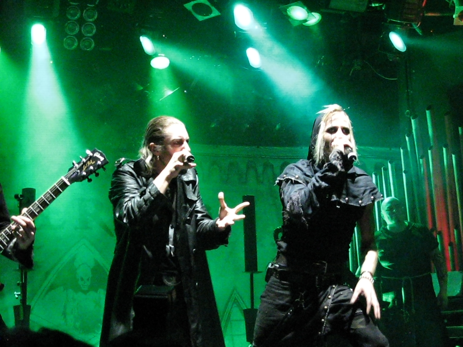 Therion at The Fridge in Brixton, 2007-12-16.